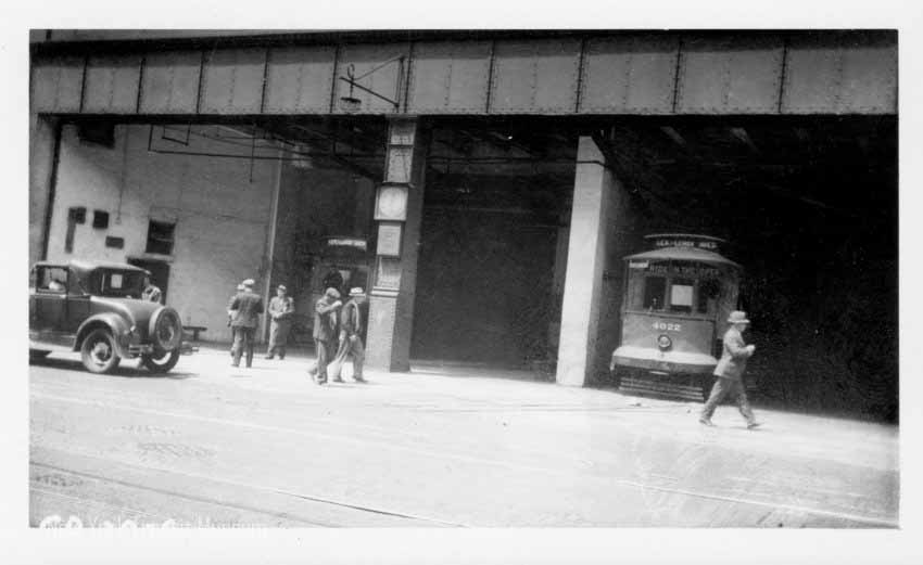 Archival photos of Mother Clara Hale Bus Depot in Harlem. Courtesy: New York Transit Museum